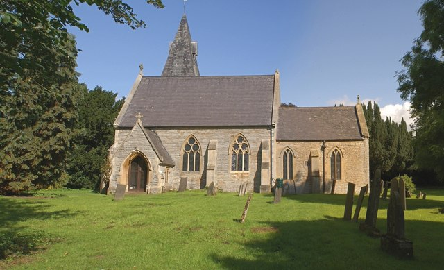 Gonalston parish church Google has plenty of information about this ancient settlement and its charming church.